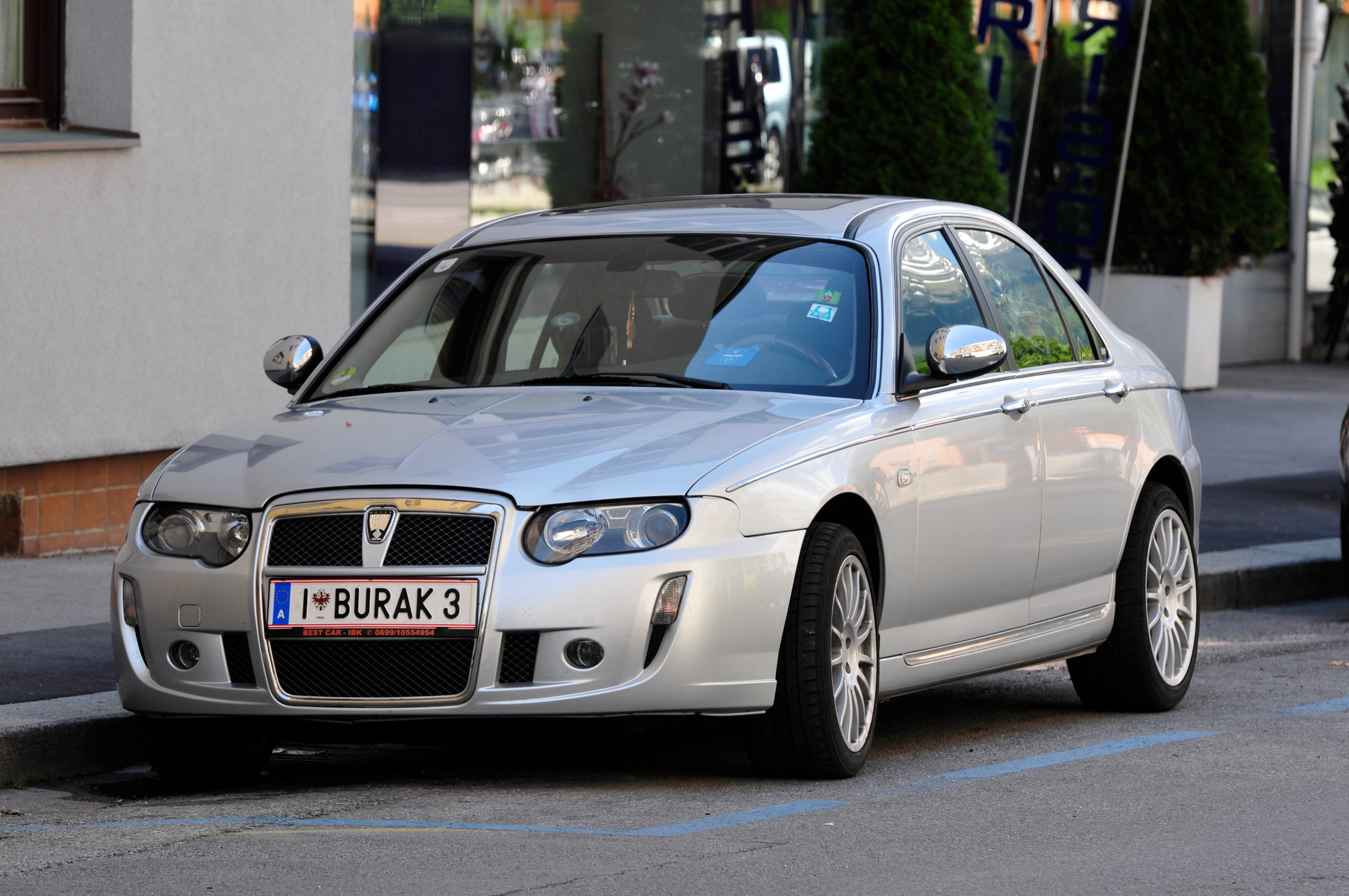 Rover 75 in Innsbruck, Austria Im Rahmen des Fußballländerspiels Österreich gegen Rumänien bin ich einige Stunden durch Innsbruck gefahren und habe Aufnahmen gemacht, die vielleicht mal gebraucht werden könnten. --Ralf Roleček 11:20, 10 June 2012 (UTC) The making of this work was supported by Wikimedia Austria. For other files made with the support of Wikimedia Austria, please see the category Supported by Wikimedia Österreich.